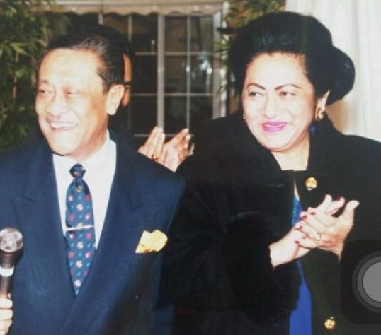 Kadarisman bersama sang istri dalam perayaan Natal Tahun 1998 di Wisma Den-Haag saat bertugas menjadi Duta Besar